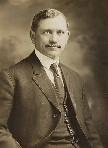 Photographic portrait of Henry D. Flood